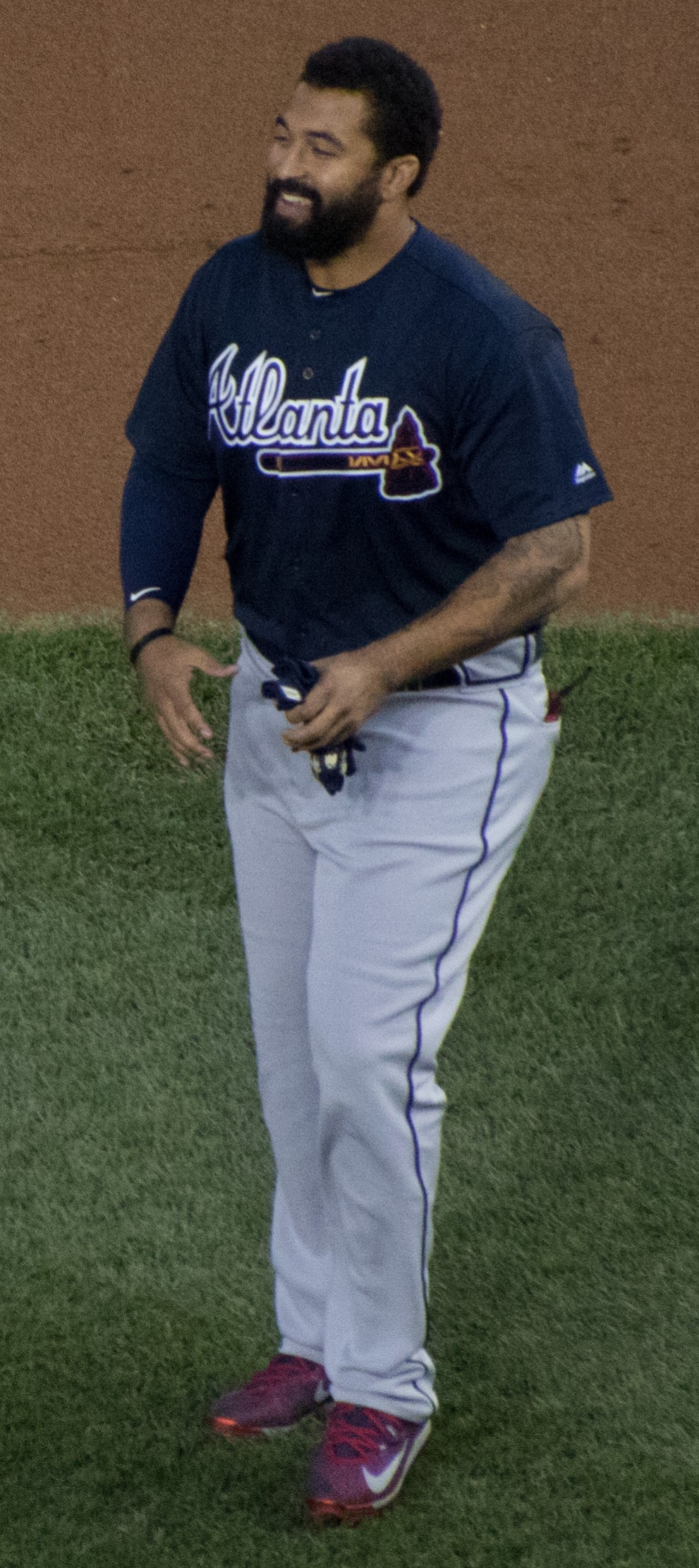 Matt Kemp